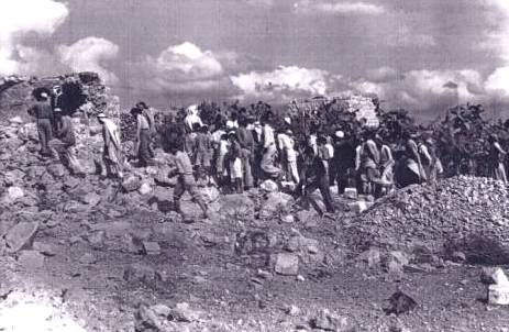 October 1953 - Inhabitants of Qibya coming back in their village after its attack by israeli forces.